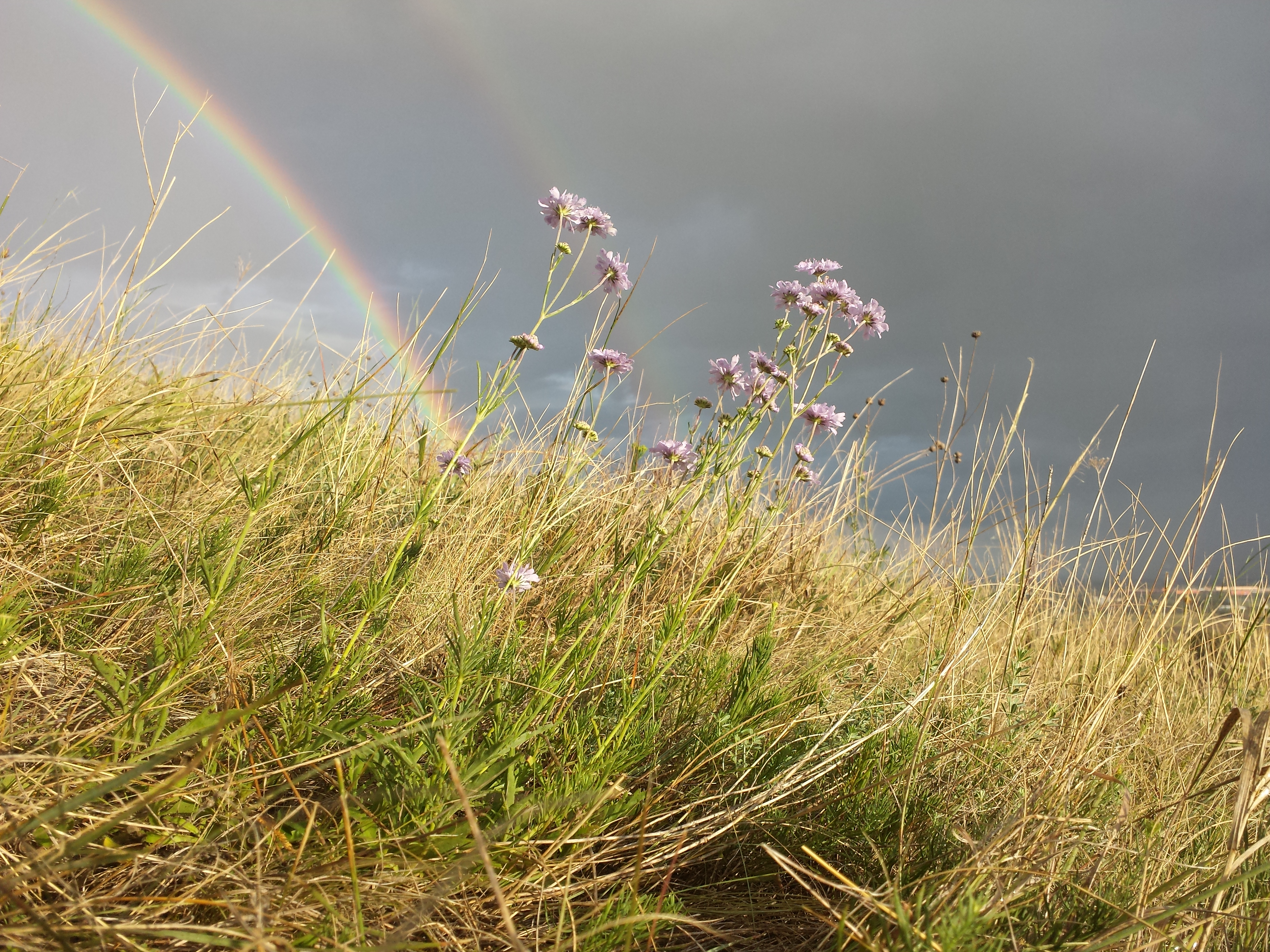 Habitus Taxonym: Scabiosa canescens ss Fischer et al. EfÖLS 2008 ISBN 978-3-85474-187-9 Location: Loess hill to the west of Großebersdorf, district Mistelbach, Lower Austria - ca. 200 m a.s.l. Habitat: semi-dry grassland